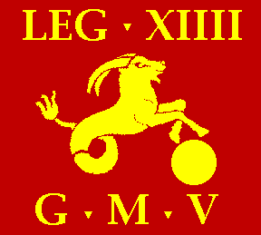 Signum of Legio XIV Gemina, simplified reconstruction